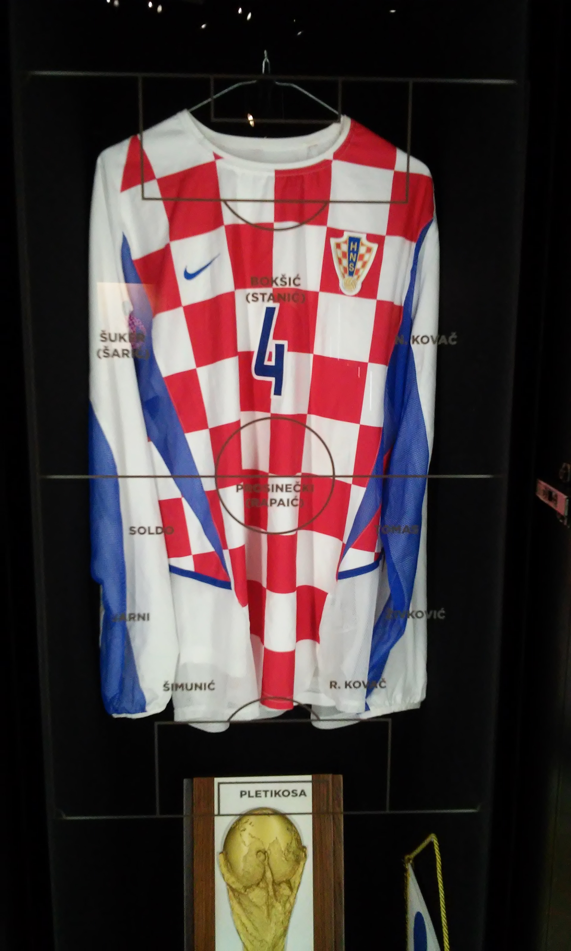 The 2002 Croatia's football home jersey, Football Museum, Zagreb, Croatia.